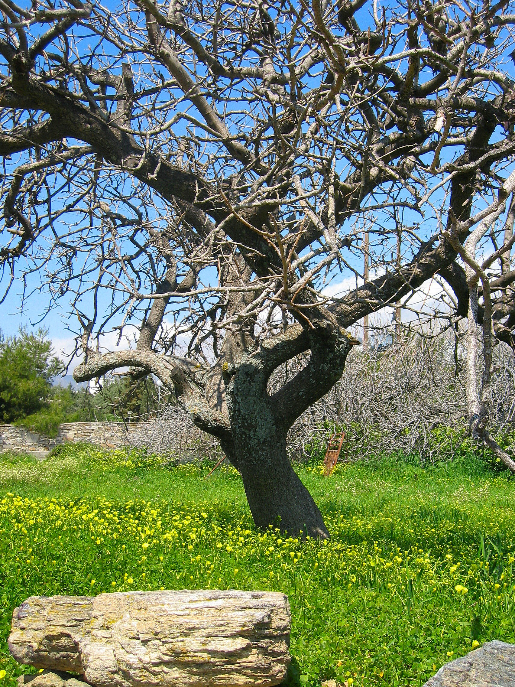 Tree near Karystos, Eboeia, Greece. Picture taken by Tim Bekaert, March 20, 2005. This tree is not an olive tree